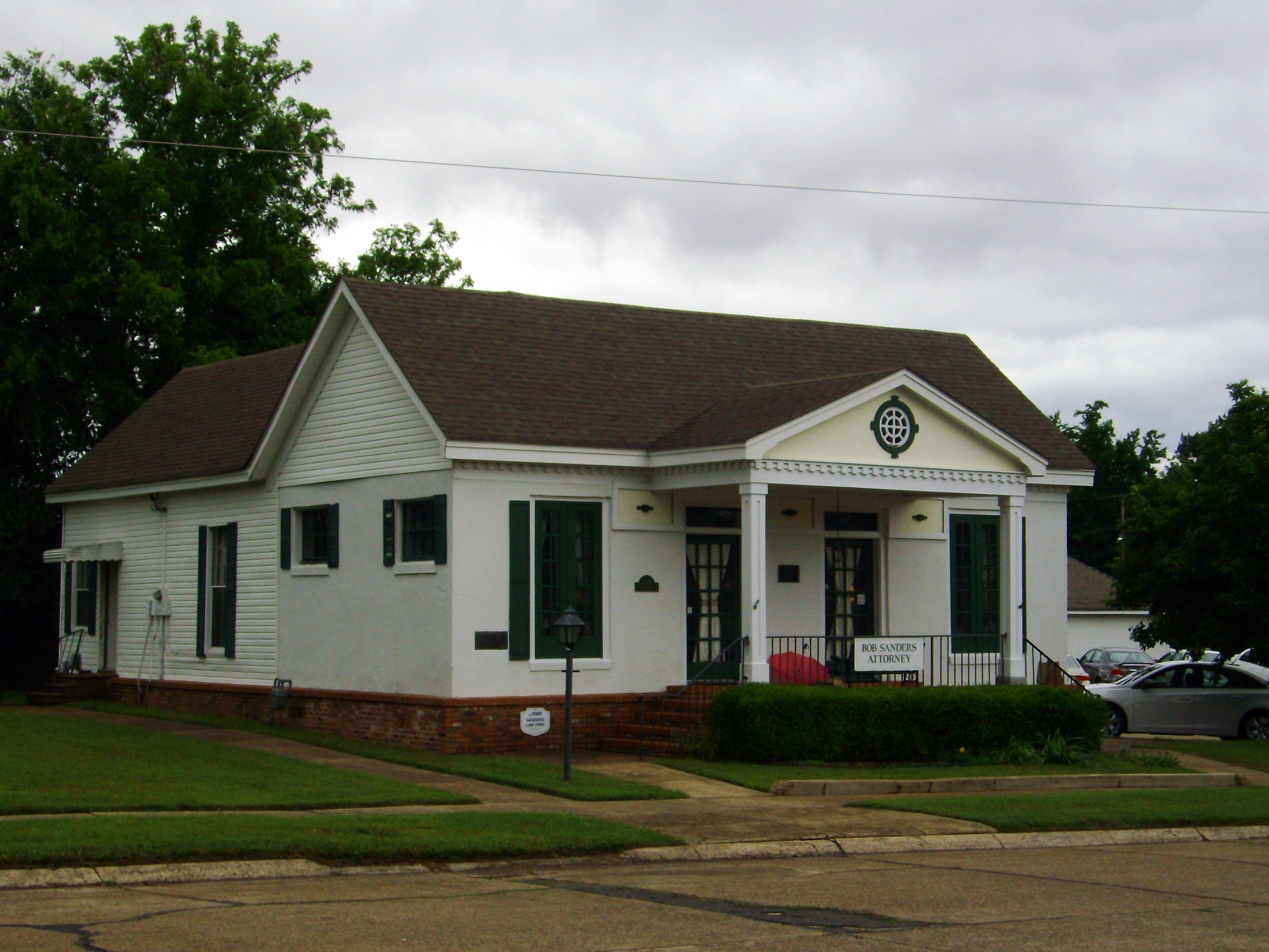 1855 office of Confederate governor of Arkansas